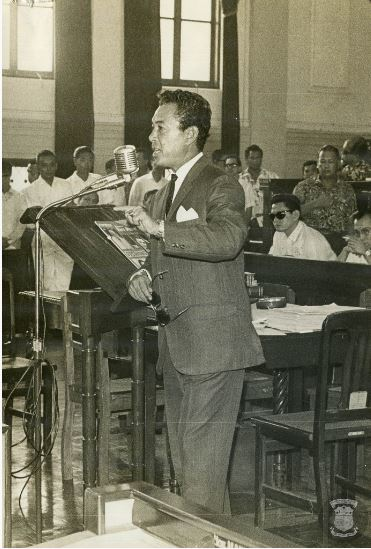 Senator Roseller Lim delivering a speech in the Philippine Senate Tagalog: Nagtatalumpati si Senador Roseller Lim sa Senado ng Pilipinas